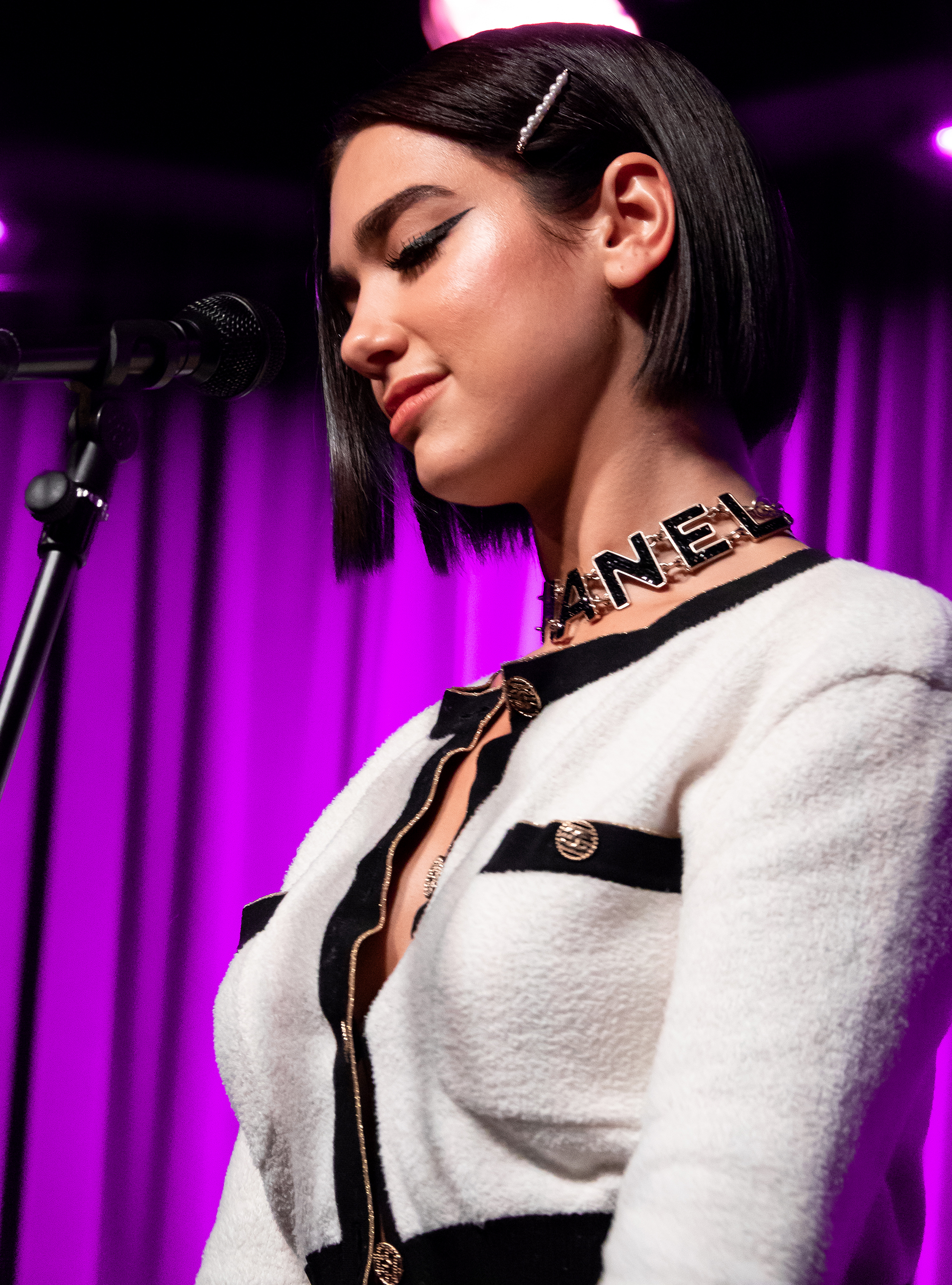 Dua Lipa performing live at the Grammy Museum in downtown Los Angeles, California, on Friday, September 28, 2018.